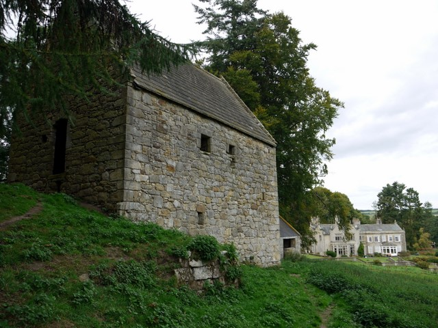 Woodhouses Bastle A bastle is a fortified farmhouse with an upper living area above a vaulted storage basement. The original doorway and windows provided defence against border raiders. Over 1000 bastles were built in the Borders between 1500 and 1700 The big house to the right is Holystone Grange.